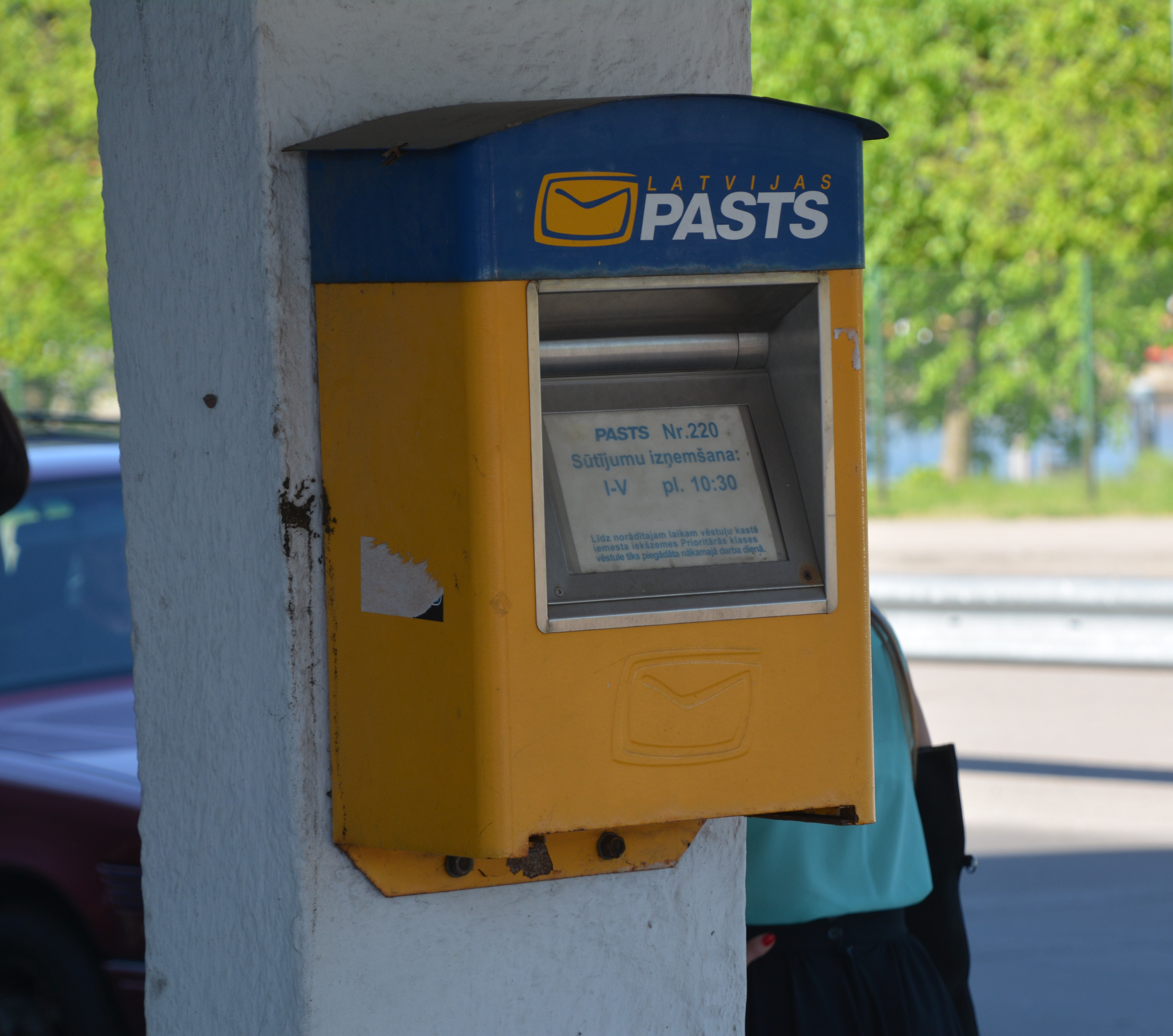 Latvia Post box, Riga Passanger terminal